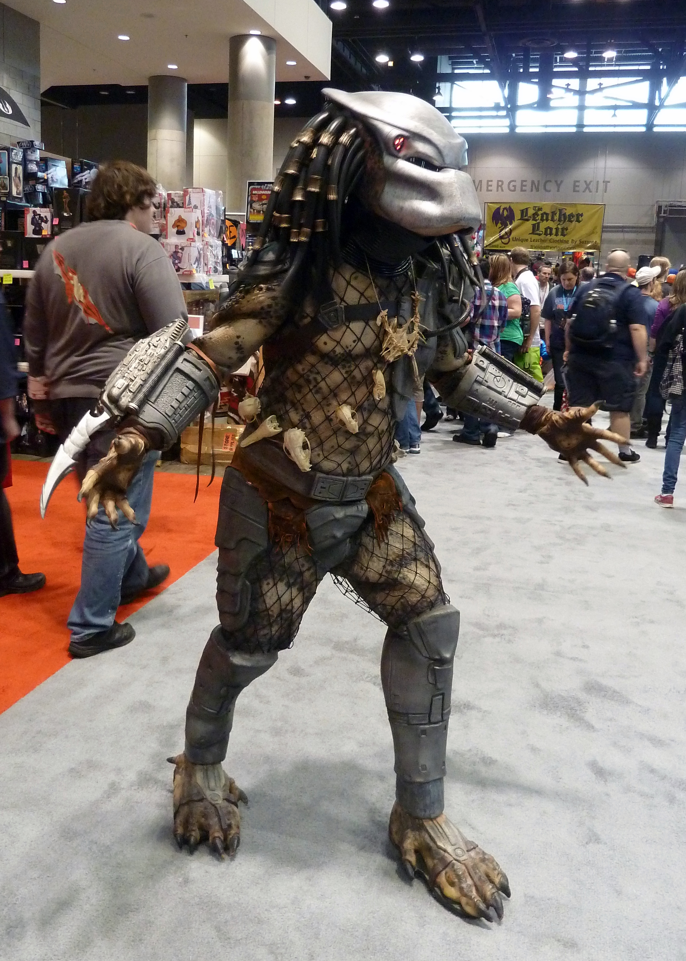 Predator. You can see how big this guy is too. Cosplay at the 2013 Chicago Comic & Entertainment Expo (C2E2).